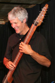 Bob Culbertson on Chapman Stick